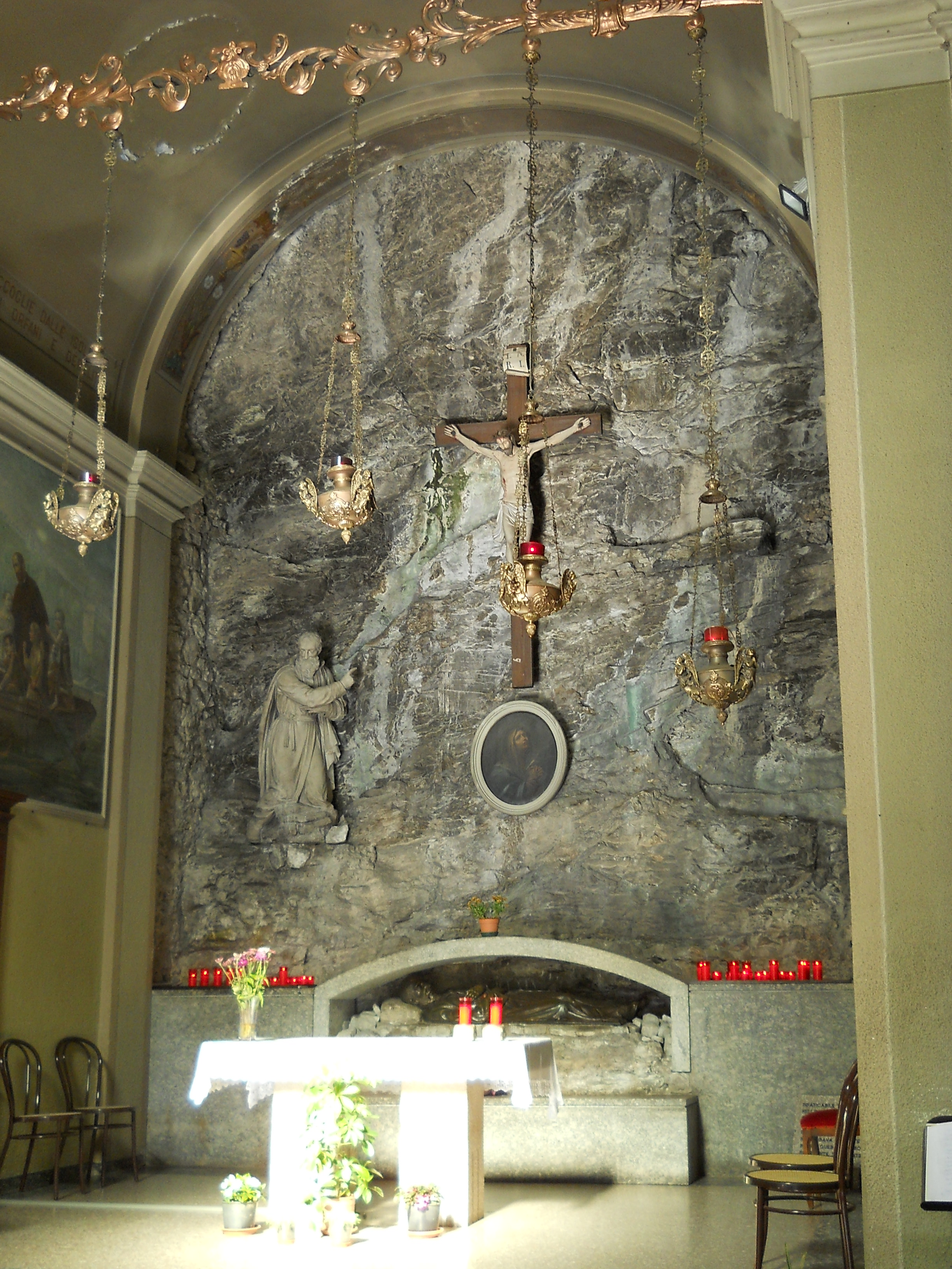 Interior of the church of San Girolamo Miani, Sanctuary of Valletta, Somasca, Vercurago, Lecco, Italy